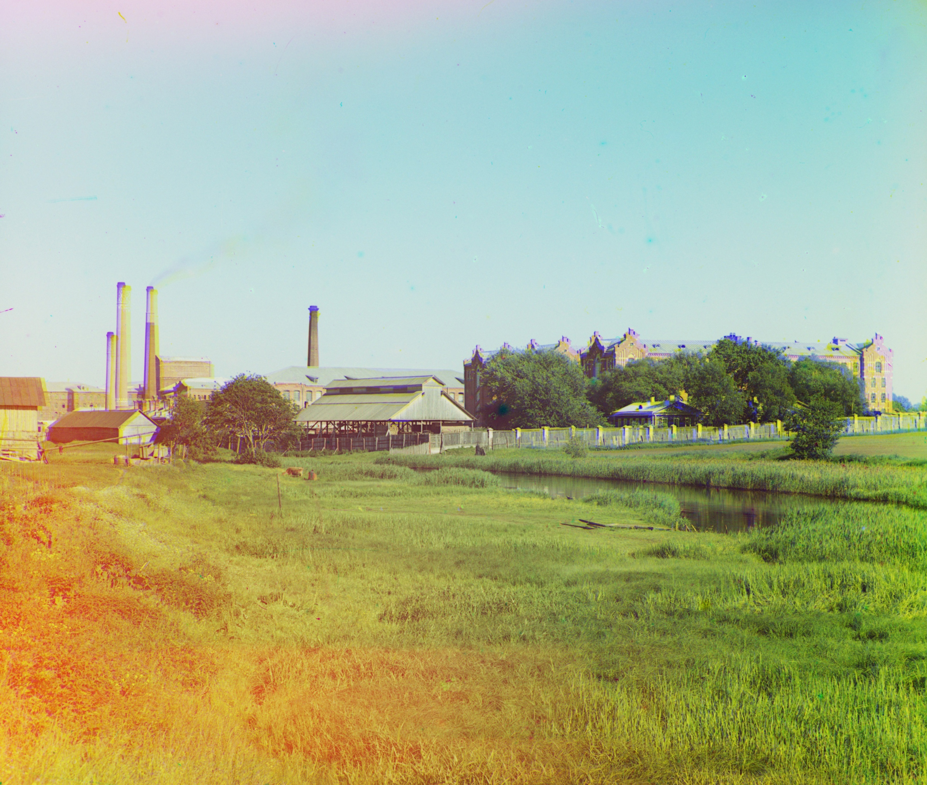 Morozov manufactory in Tver, 1910